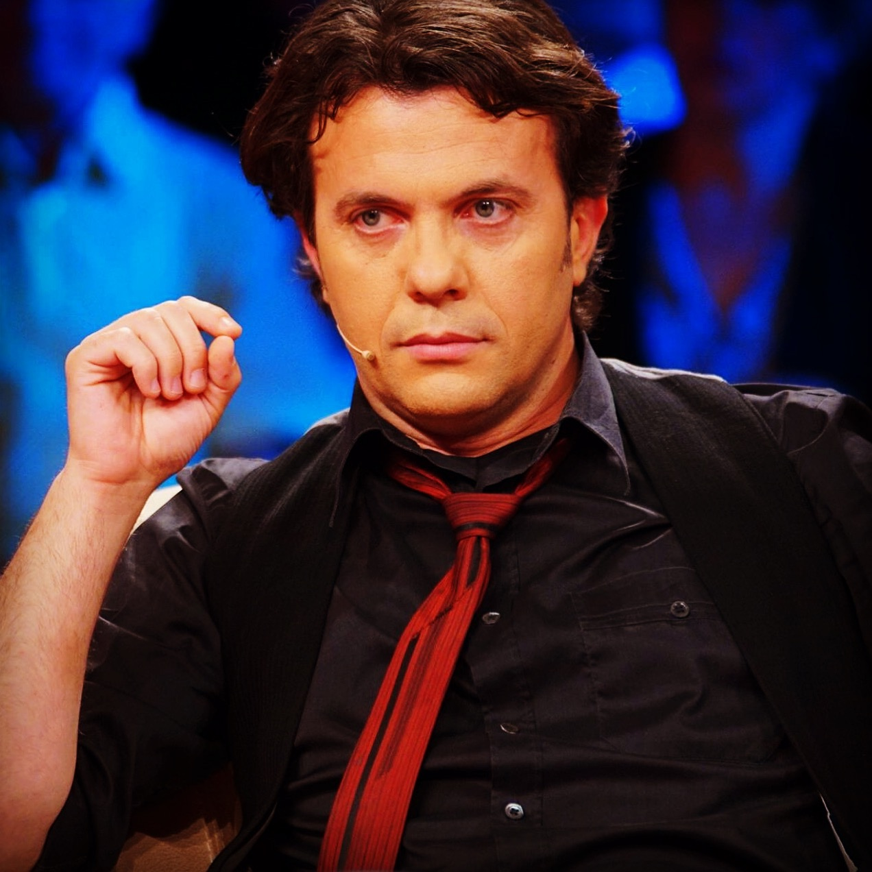 Laert Vasili before an interwiew